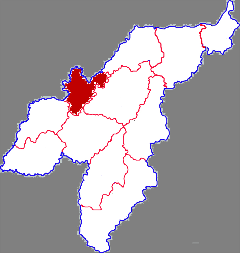 Location of Decheng district in Dezhou City, China